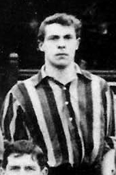 Alan-Haig Brown, English footballer, Old Carthusians, 1903